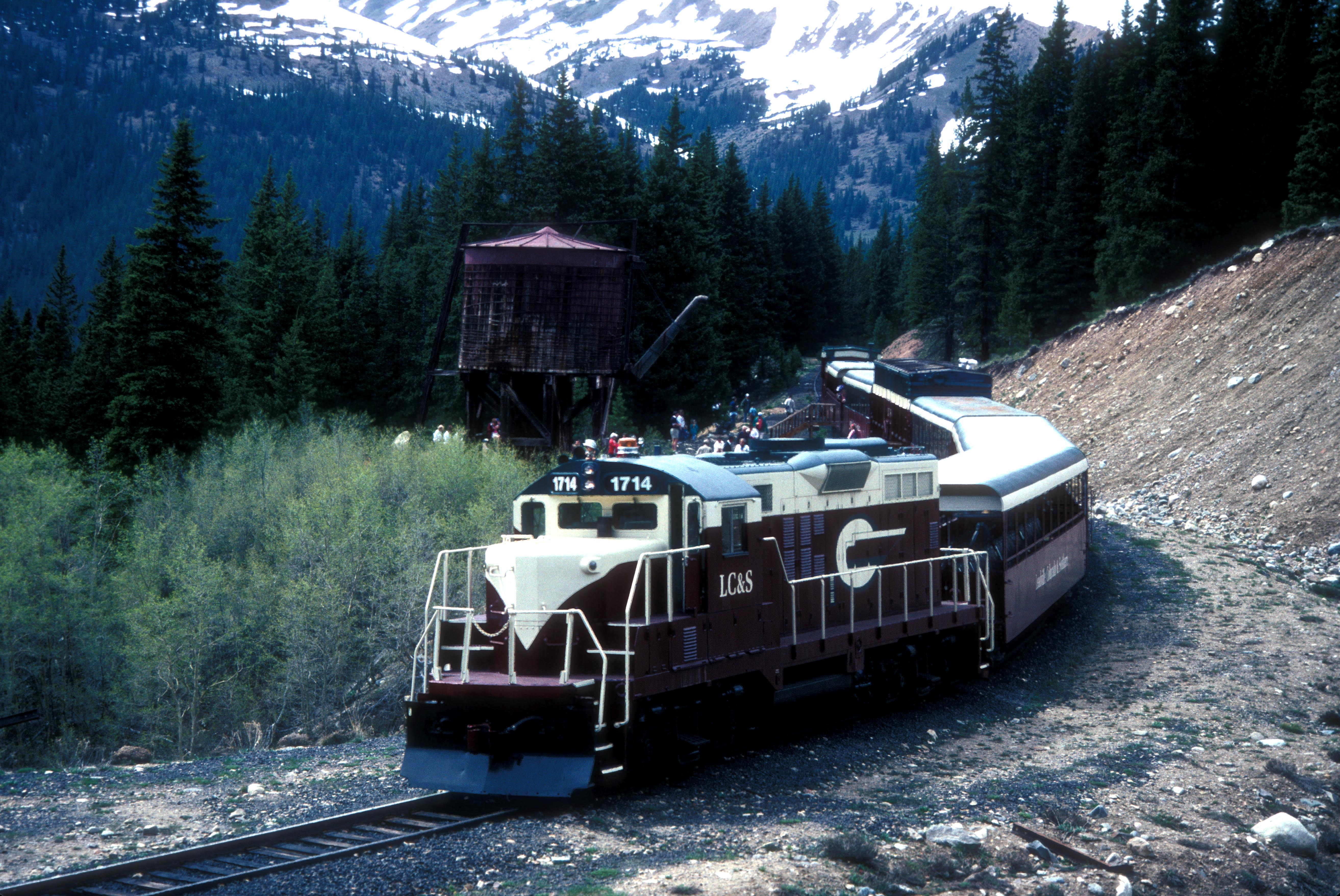 TRAIN IS STOPPED AT THE HISTORIC FRENCH GULCH WATER TOWER